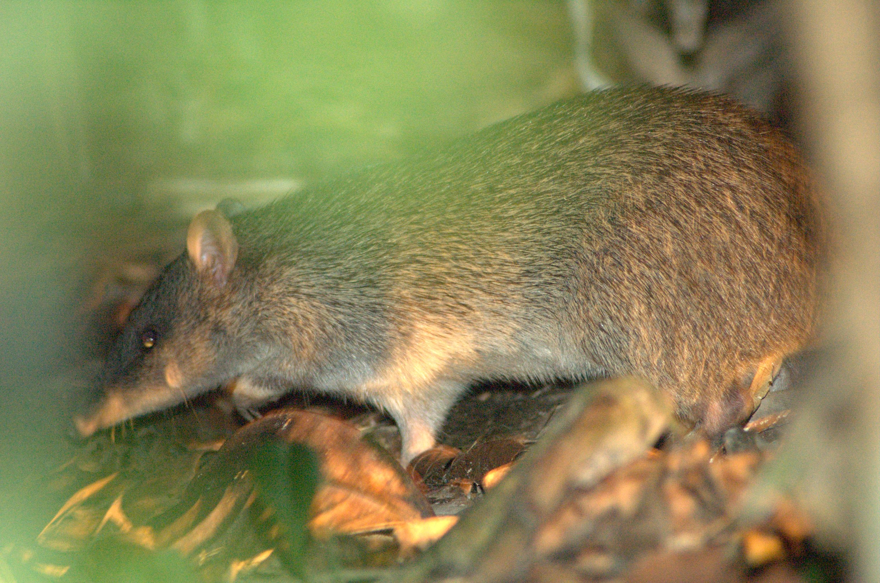 Foraging bandicoot shot late at night through the grass. Port Douglas area, Queensland, Australia. December 2005. пан Бостон-Київський 06:28, 25 January 2006 (UTC) Can only be used under the domain. Contact me for other uses. пан Бостон-Київський 22:08, 27 October 2006 (UTC)